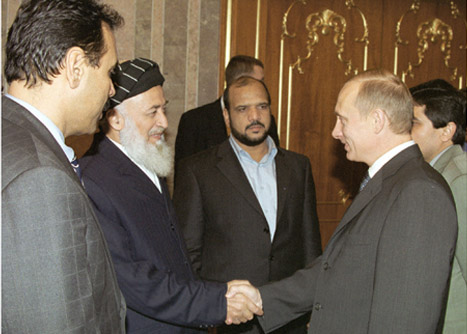 DUSHANBE. President Putin with former Afghan President Burhanuddin Rabbani.